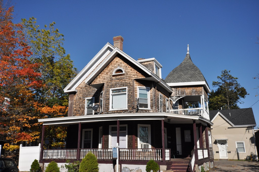 South Street (house on north side), Brockton, Massachusetts.